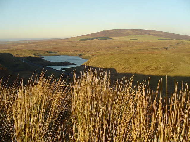 Loughareema